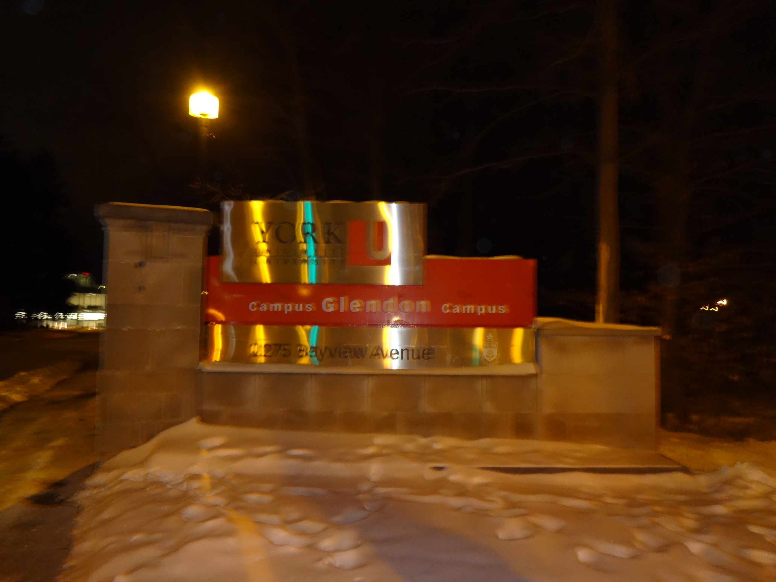 Glendon campus, at York University, Toronto, Ontario, Canada.